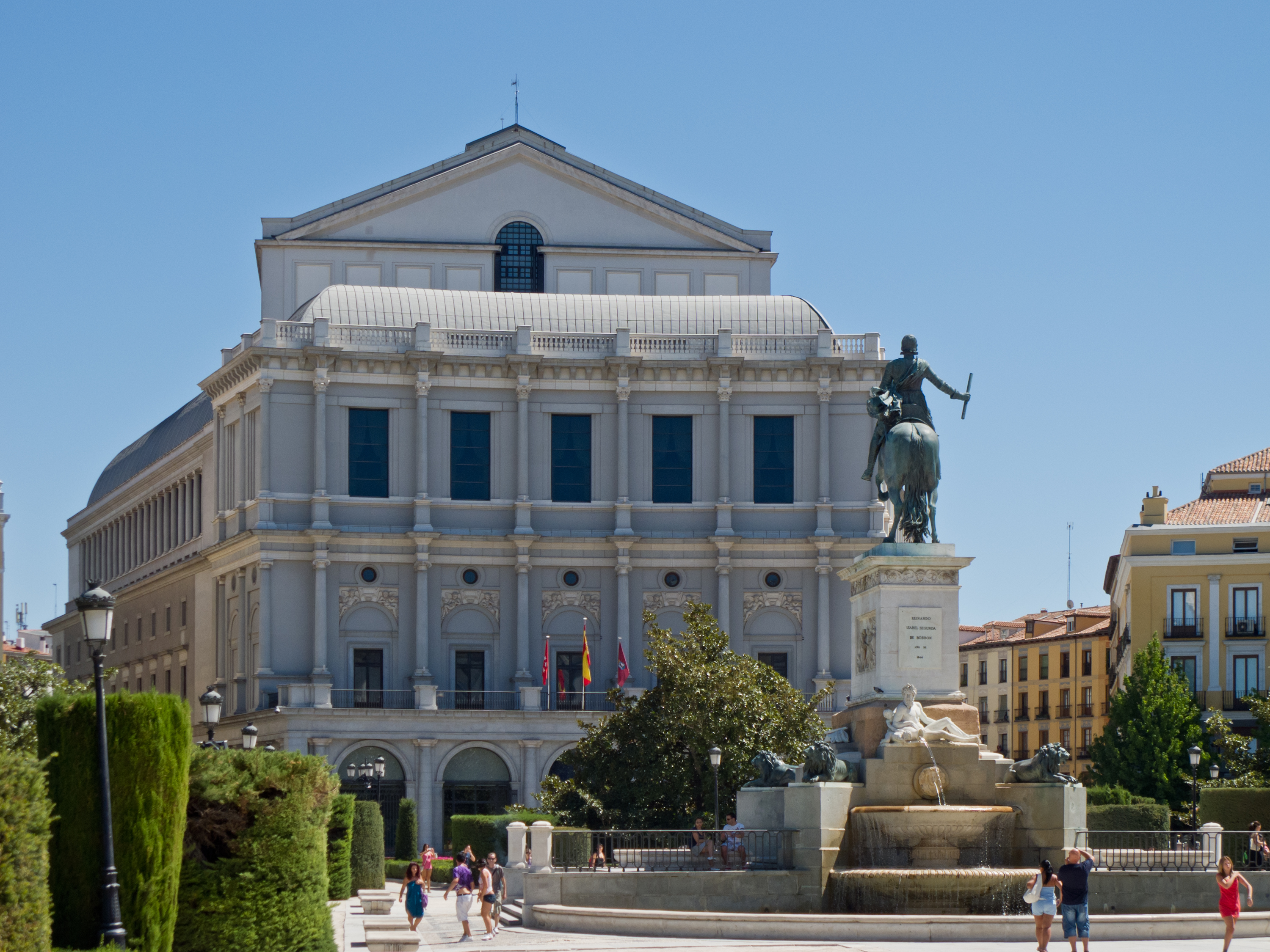 Royal Theatre and monument to Philip IV of Spain, Madrid, Spain.